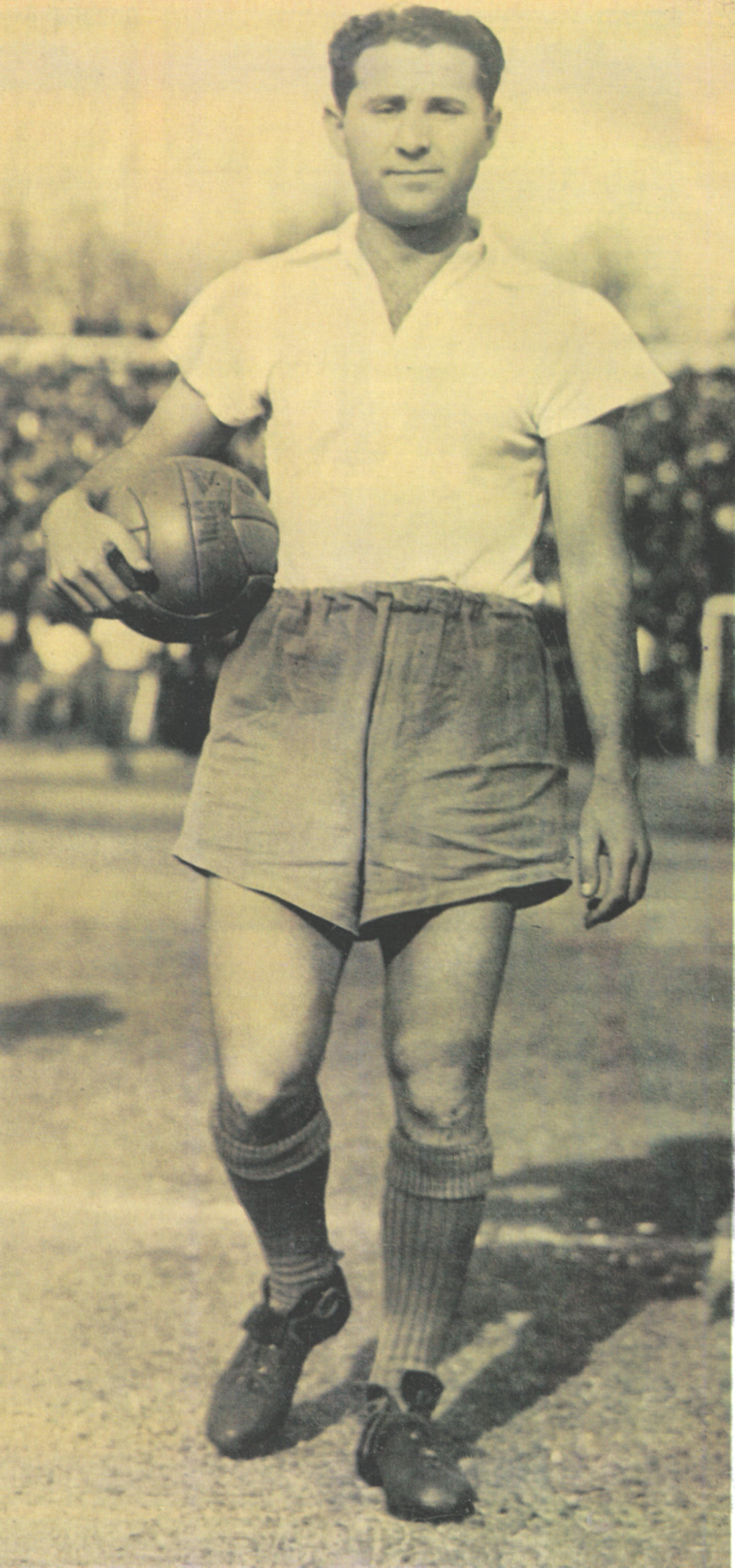 Aarón Wergifker while playing for Platense